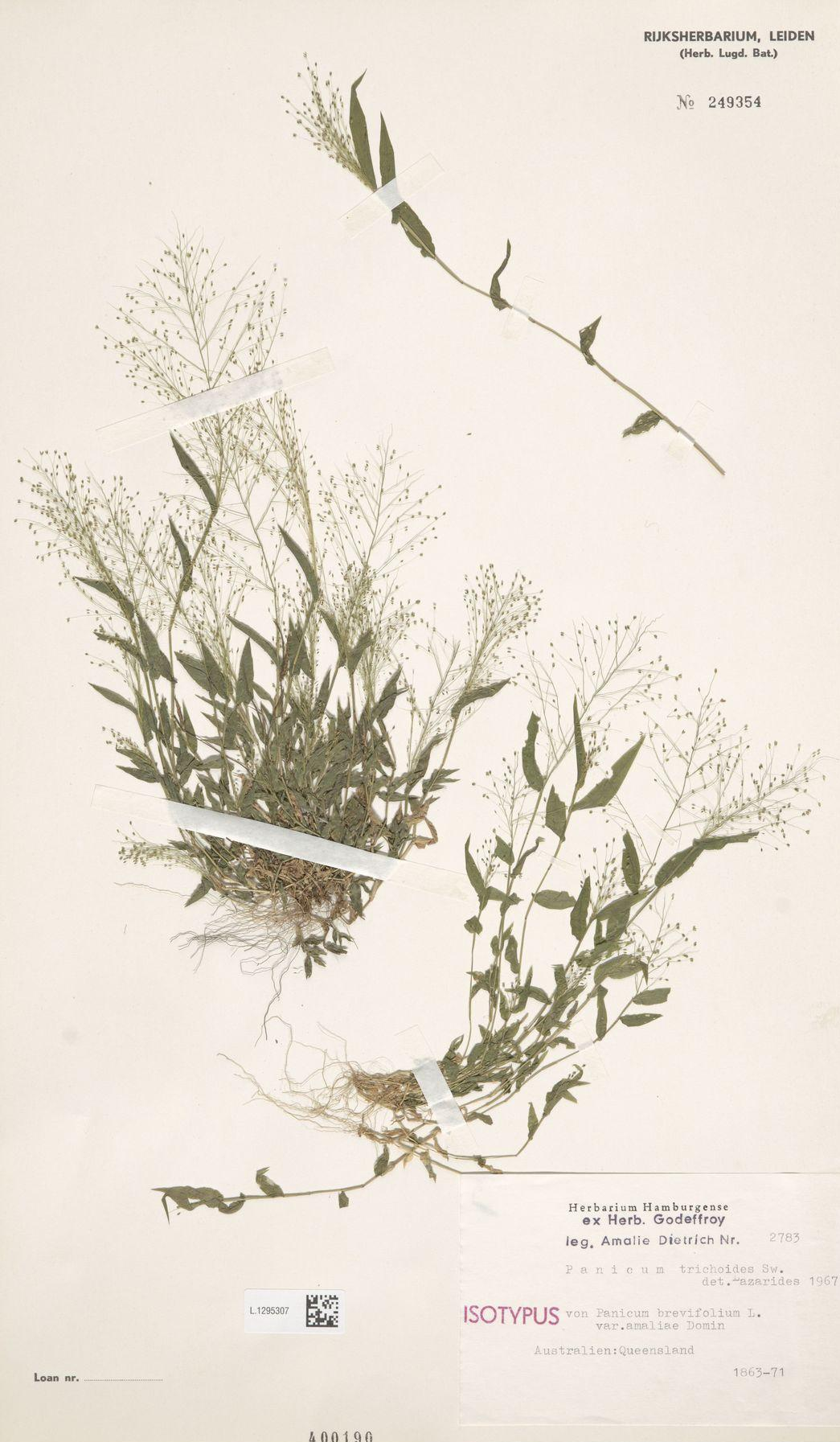 Panicum trichoides Sw. (type of) - Panicum trichoides Sw. (species)